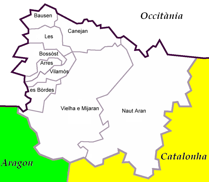 Occitan version of the map